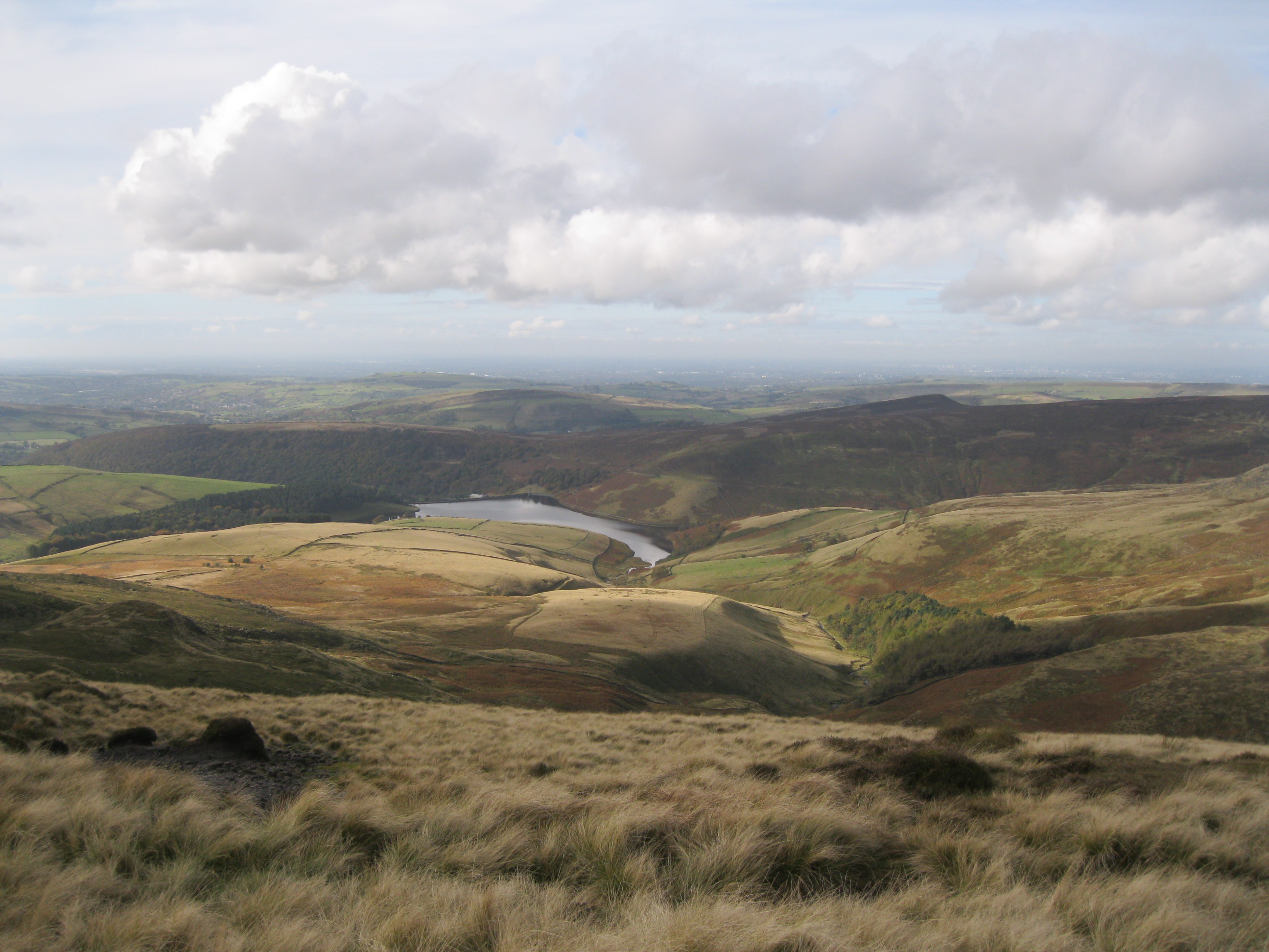 Pennine Way, view from Kinder Scout, Peak District, Derbyshire